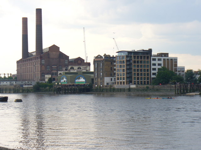 Lots Road Power Station, Chelsea Wharf